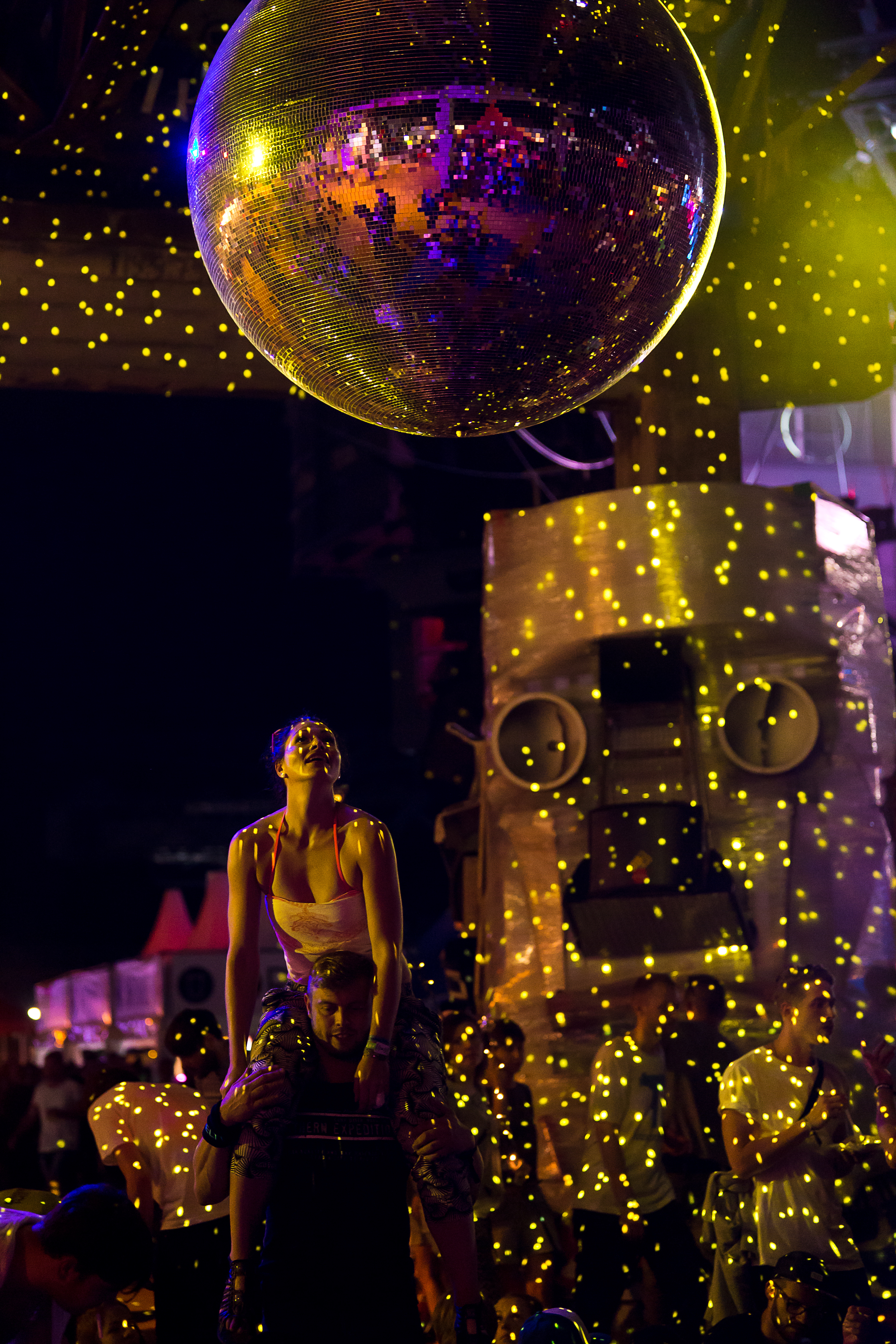 Impressions from Melt! festival 2015 in Ferropolis/Germany.